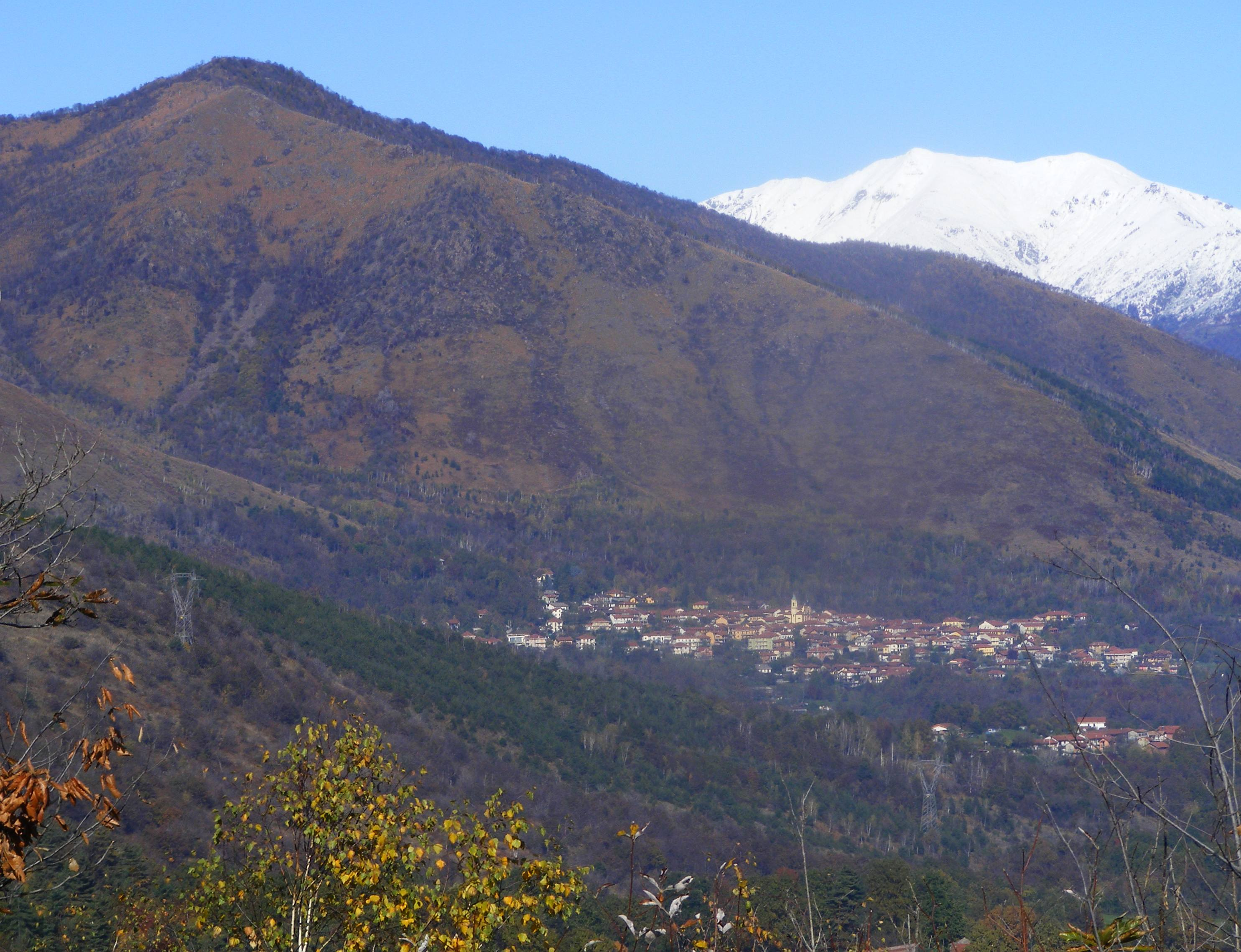 Vallo Torinese (TO, Italy) on the south slope of Monte Corno; on the right the snowy summits of mounts Angiolino and Vaccarezza